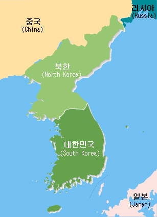 created by 아흔(A-heun) file-format: .JPG